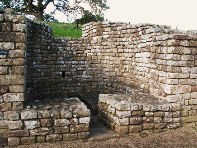 The Bath House, Chesters Fort - the Hot bath